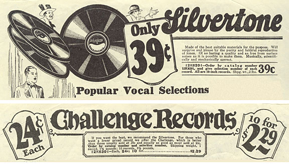 Advertising from Sears & Roebuck Company for ARC Records sulabels Challenge and Silvertone